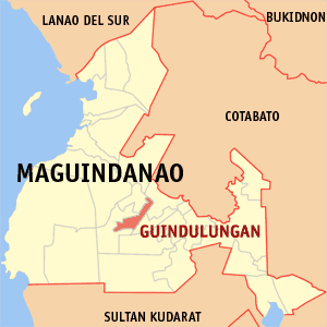 Map of the Maguindanao showing the location of Guindulungan